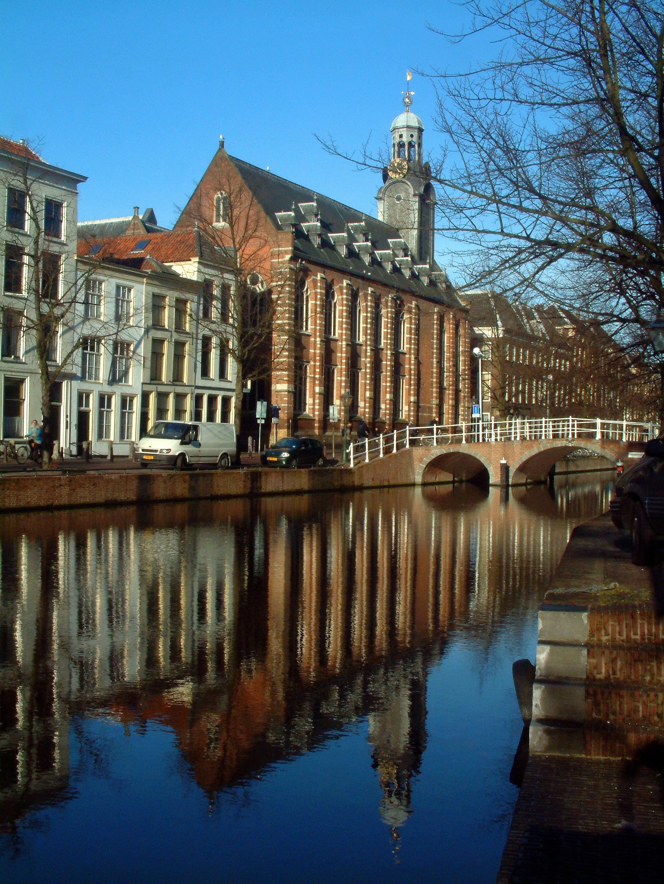 The 'Academiegebouw' is the former chapel of the Dominican 'White Nuns'. It is the oldest building of Leiden University.